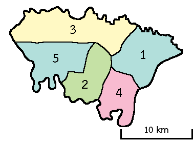 Subdistricts of Phon Sai